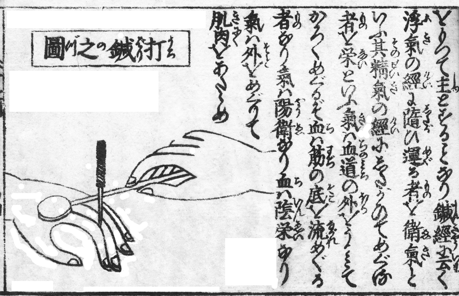 Japanese tapping needle in Hongō Masatoyo's Shinkyū chōhōki, 1718 (Michel Collection, Kyushu University)